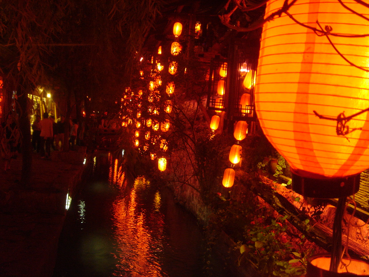 Lijiang